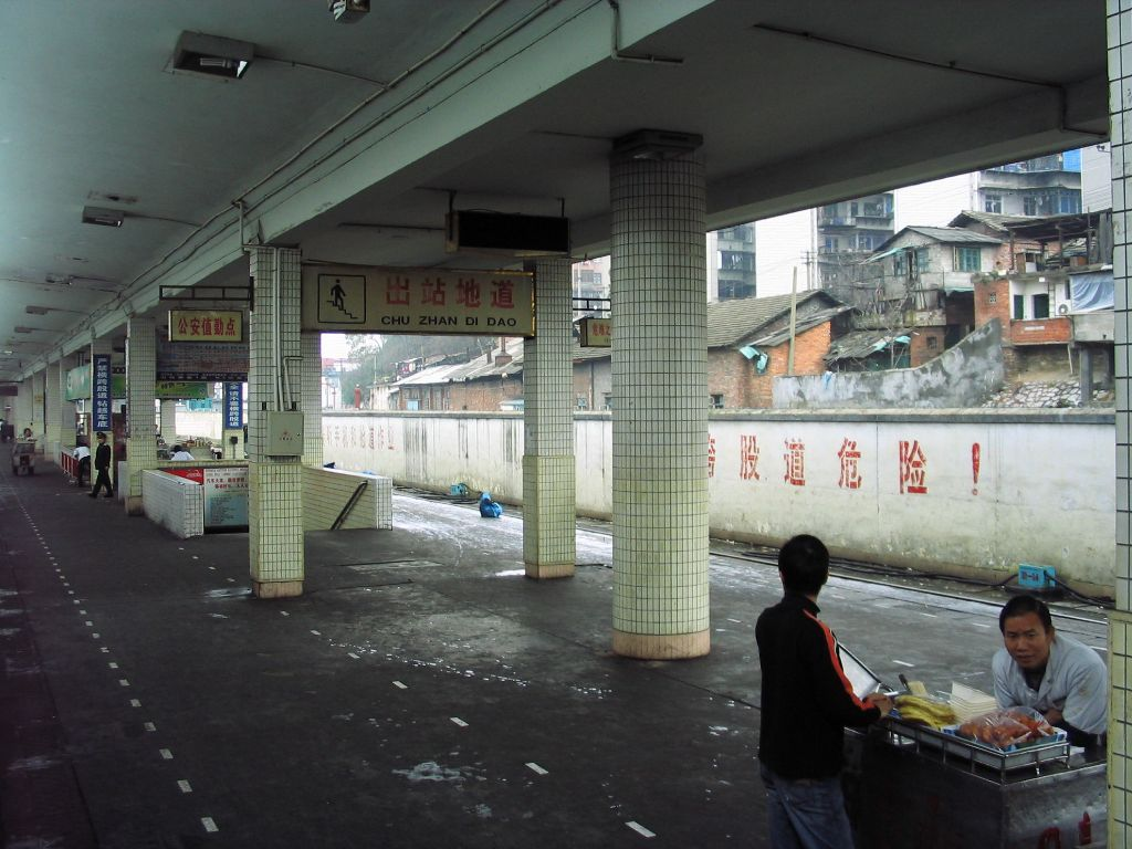 衡阳站-站台 Platform of Hengyang Station